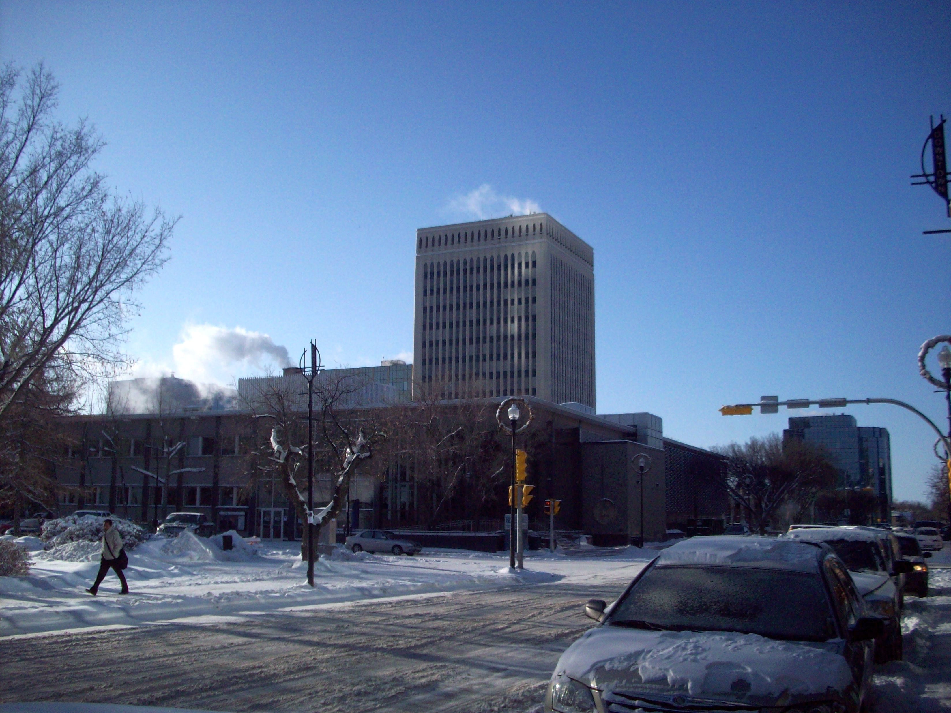 Regina Public Library main branch